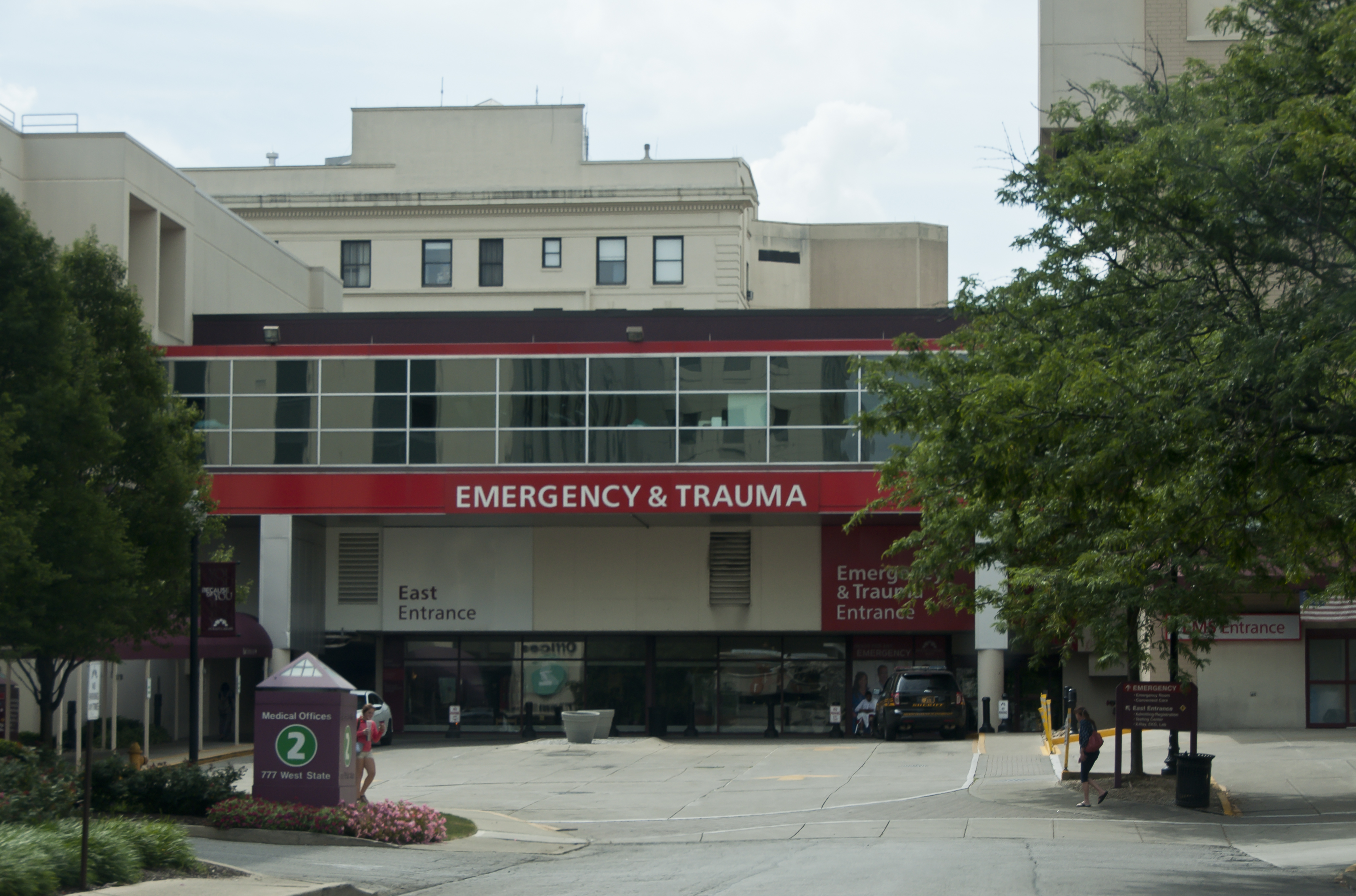 Emergency room entrance for :w:Mount Carmel West |Mount Carmel West taken from the east at the end of August of 2017